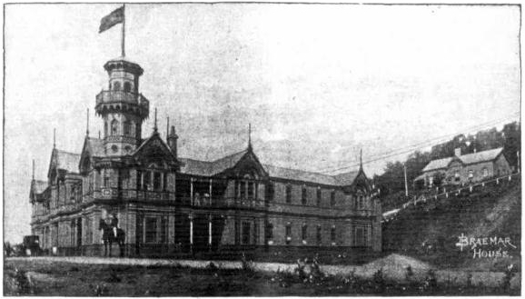 Braemar House Mt Macedon - source National Library of Australia NLA Trove scan - The Australasian Saturday 2 March 1895